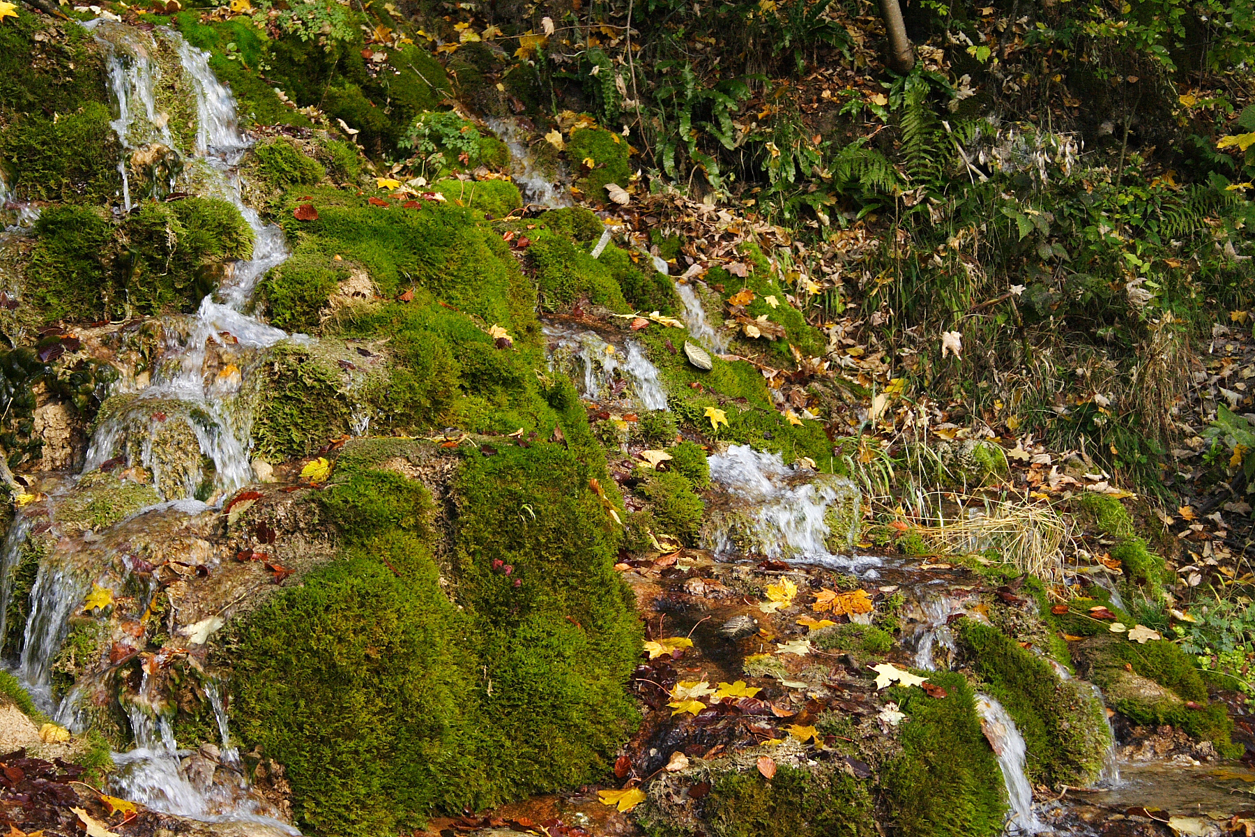 Ca. 125m long terrace of „Calcereous Tuff" (similar: Travertine terrace) at the Albtrauf near Bad Urach, southern Germany. Water percolates from behind a spring, of which the horizon is an impermeable stratum in the karst, high above a valley’s bottom. Fresh moss grows on top of older cushions of moss. These were encrusted by calcium carbonate, chemically precipitated from the water. The Moss’ photosynthesis accelerates precipitation enormously.